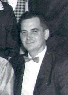 Portret